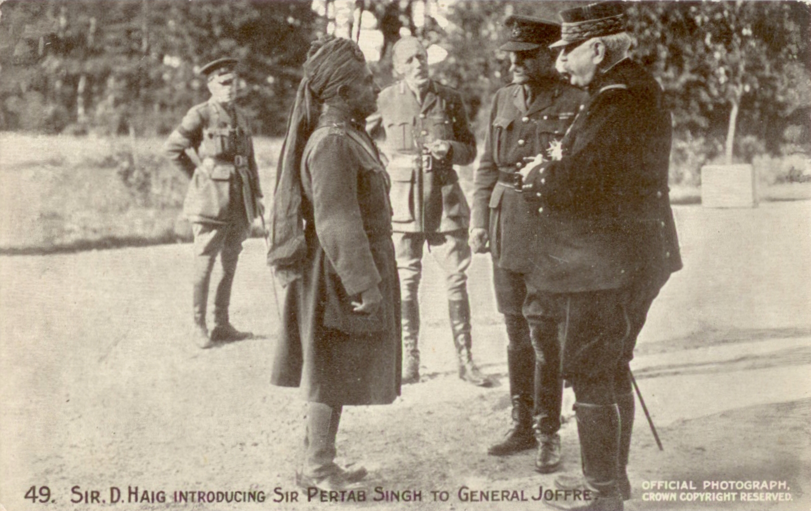 World War I Daily Mail Official War Photograph, Series VII, No. 49, titled "Sir D Haig introducing Sir Pertab Singh to General Joffre". The obverse carries the following information: "Passed by Censor" and ""I hope the time is soon coming when at the head of my men I shall die fighting." So says our grand old man of India, Lieutenant-General Sir Pertab Singh."